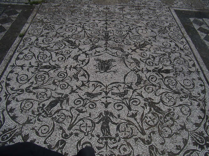 Ostia, Caseggiato di Bacco e Arianna, mosaic